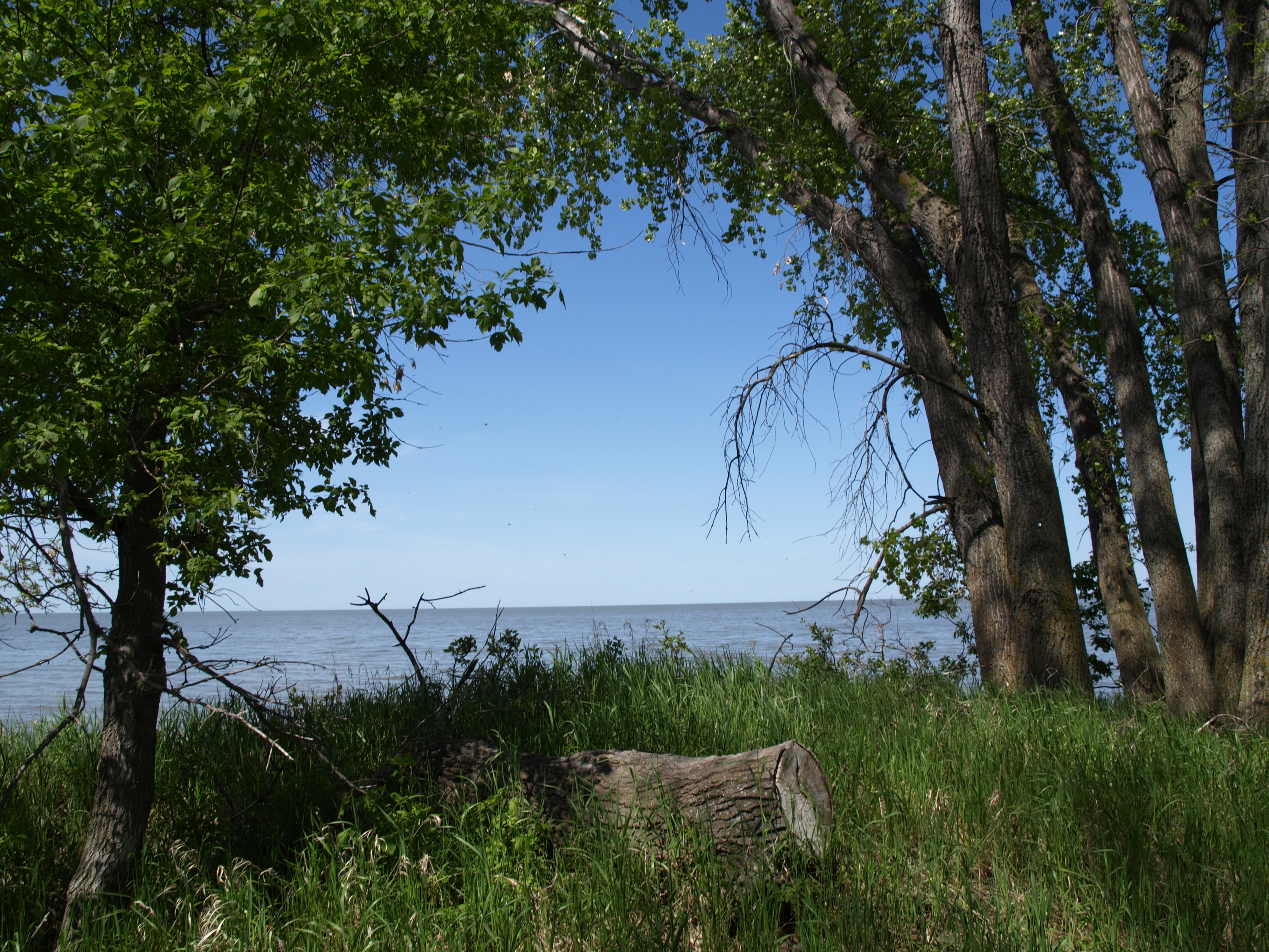 Delta Marsh Field Station Manitoba Canada